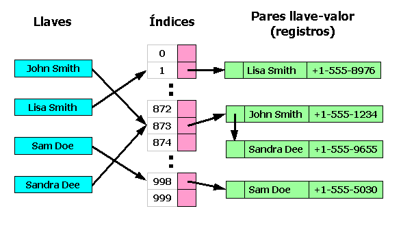 Modified version of